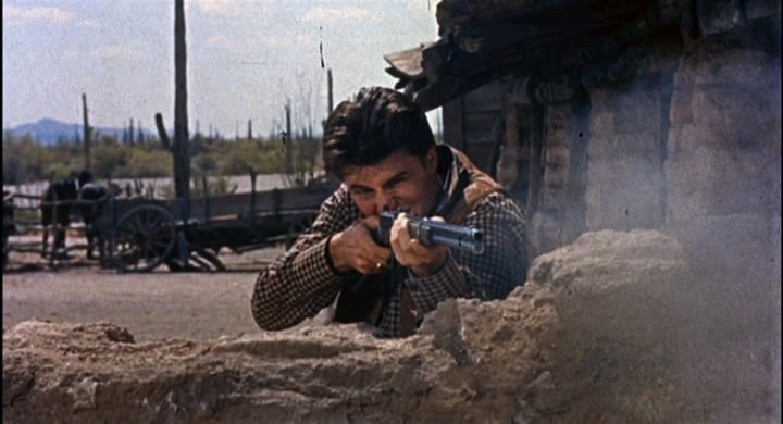 Cropped screenshot of Ricky Nelson from the trailer for the film Rio Bravo